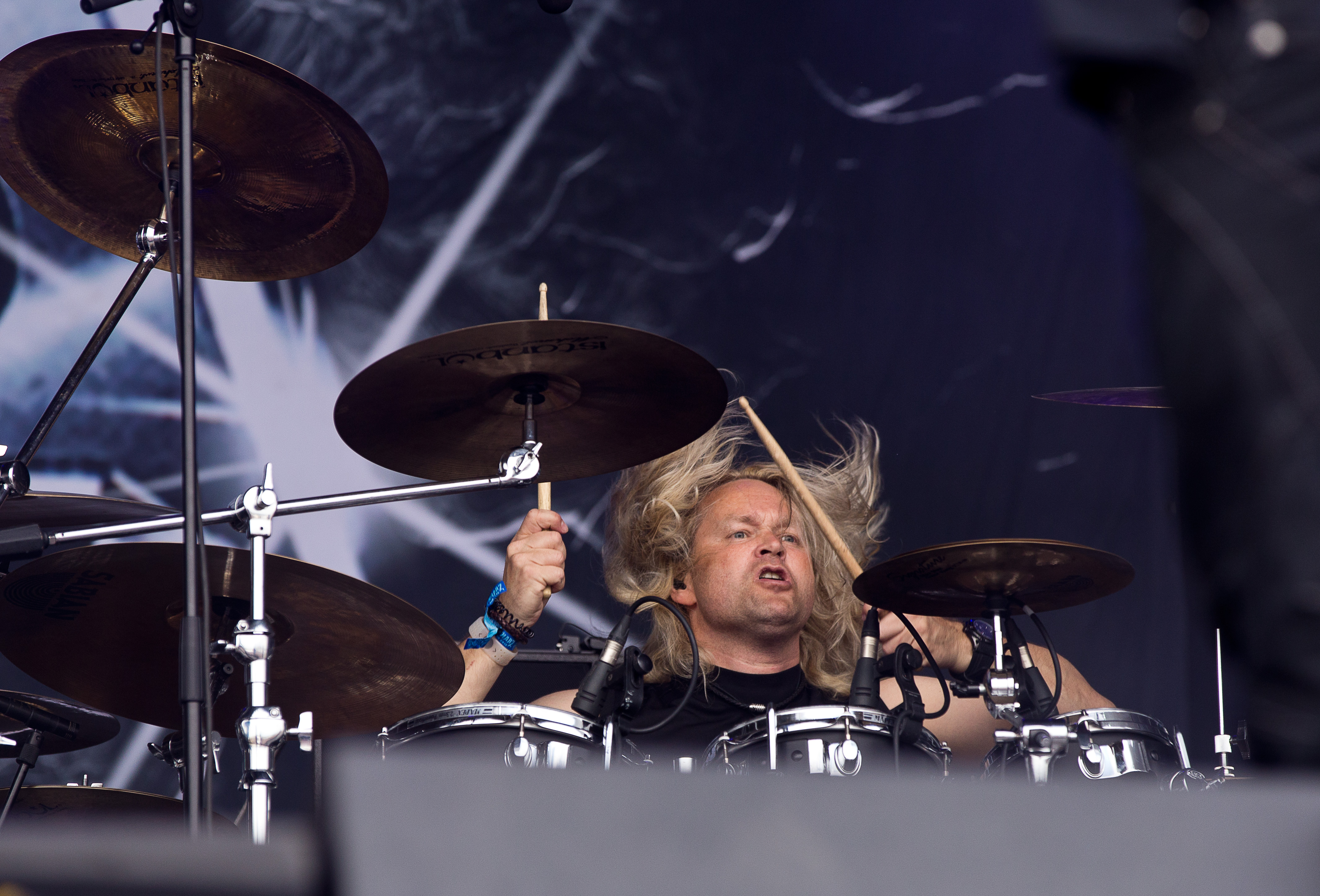 The German hard rock band Axxis at the Rockharz Open Air 2016 in Ballenstedt/Germany.